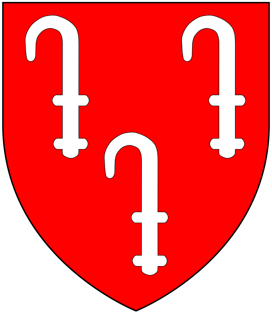 Arms of Cutcliffe of Damage in the parish of Mortehoe, Devon: Gules, three pruning hooks argent (Vivian, Lt.Col. J.L., (Ed.) The Visitations of the County of Devon: Comprising the Heralds' Visitations of 1531, 1564 & 1620, Exeter, 1895, p.264) Copied from the mural monument in Swimbridge Church, Devon, to Charles Cutcliffe (d.1670), on which the escutcheons appear to have been re-affixed upside-down